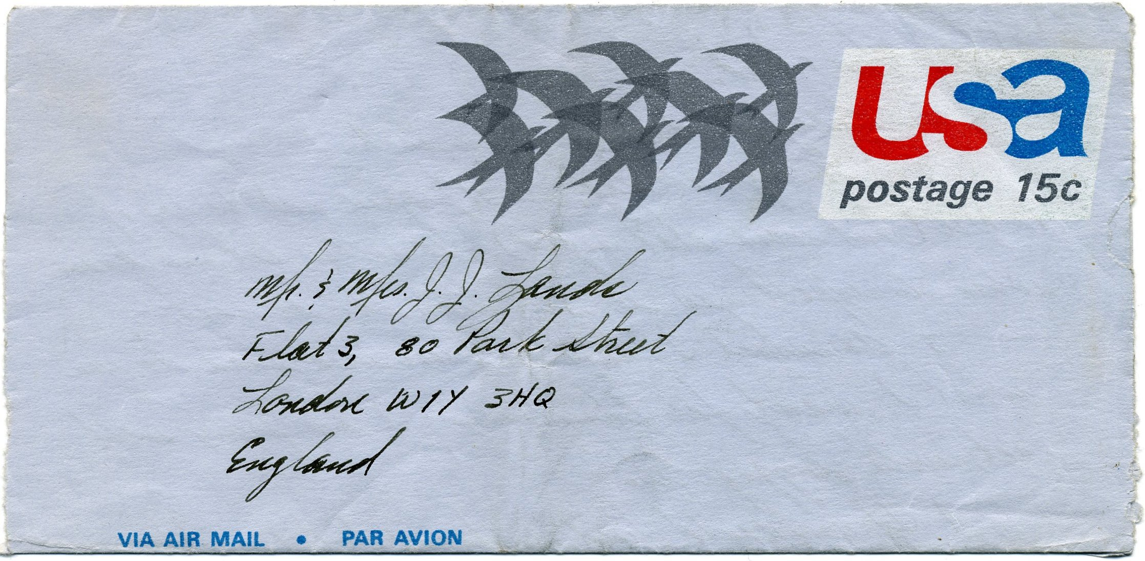 1971 US aerogram issued to accommodate postal rate increase from 13 cents to 15. Significant error with the omission of the word "AEROGRAMME" which meant this technically did not meet the U.P.U. standards and some foreign governments did not accept the lower aerogram rate. After a printing of 28 million copies, the same design was issued with the proper wording in December, 1971. Back inscription: "Do not use tape or stickers to seal - No enclosures permitted".